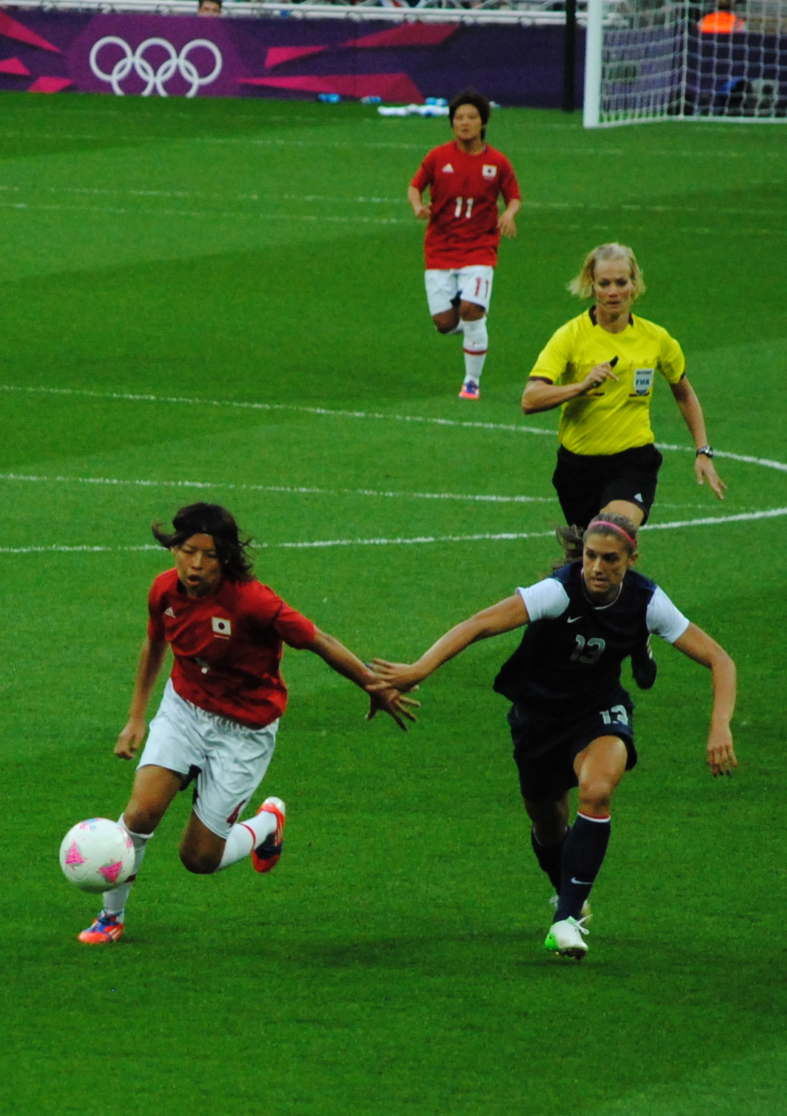 USA vs Japan at the 2012 Summer Olympics